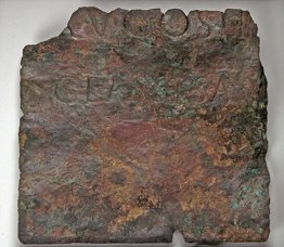 Fragment of a Roman inscription bearing the word CLASSIS (fleet) found in Naaldwijk The Netherlands. ZPE-173-283. [Imp(eratori) Caes(ari) divi Traiani/ Parth(ici) f(ilio) divi Ner(vae) nep(oti)/ Traia(no) Hadriano Aug(usto)/ pontif(ici) max(imo) trib(unicia) pot(estate)]/ XV co(n)s(uli) III [proco(n)s(uli) p(atri) p(atriae)]/ classis Au[g(usta) German(ica)]